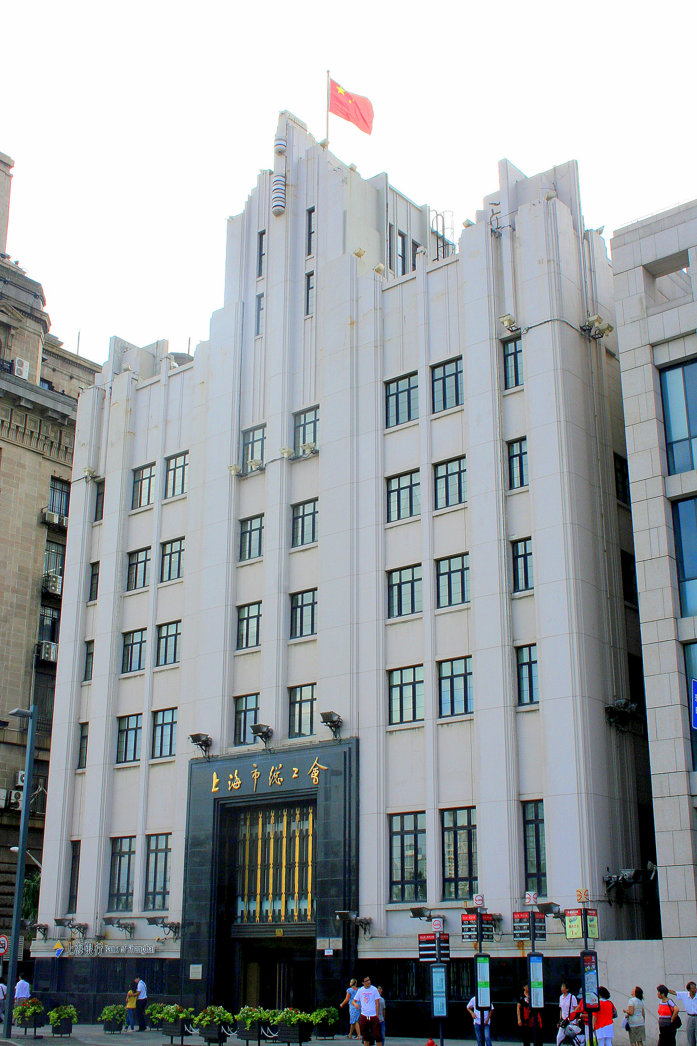 This is the China Bank of Communications Building, located at No.14, The Bund, Shanghai. It was completed in 1948.